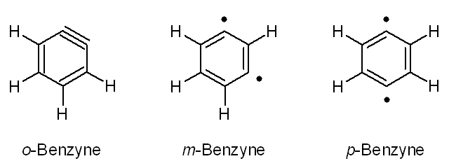 Chemical Structures of Benzynes